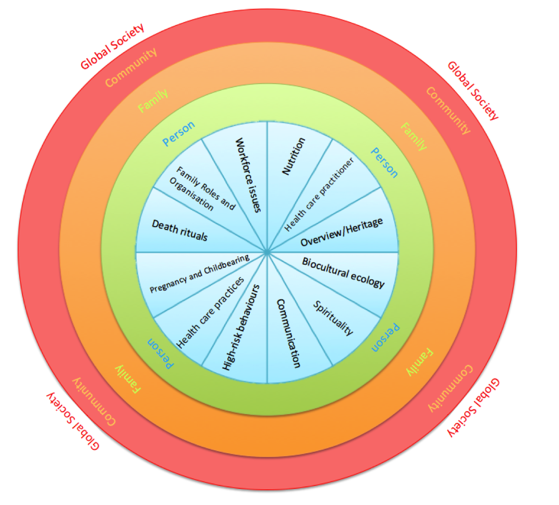 This is diagram I have created to help illustrate the Purnell Model based on my article.